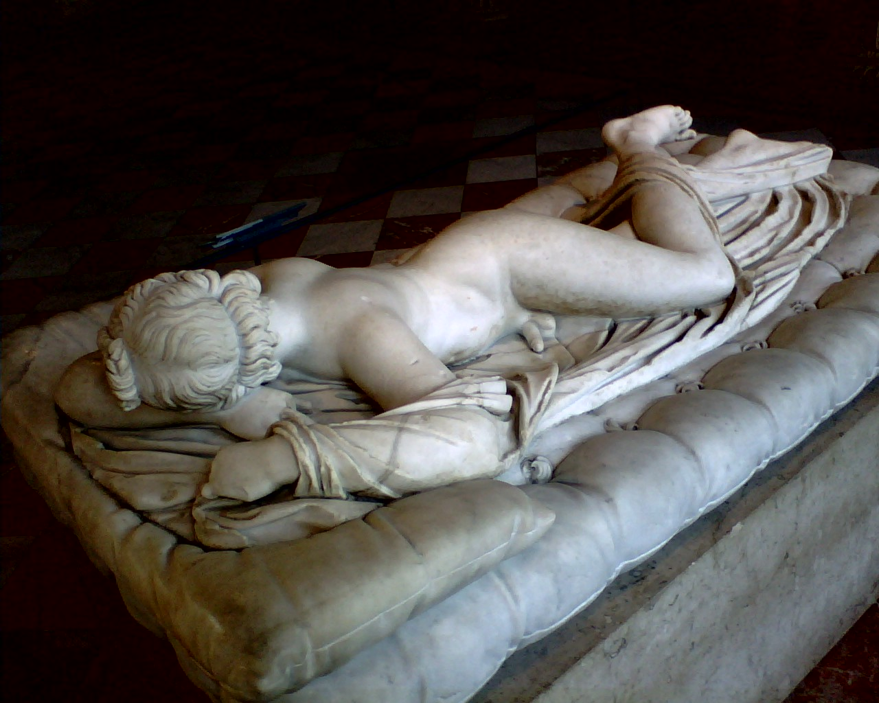 Hermaphroditus asleep. Greek marble, Roman copy from the Imperial Era (2nd century CE) after a Greek original, now at the Louvre, Paris (purchased in 1807). The mattress (Carrara marble) was sculpted in 1619 by Gianlorenzo Bernini, commissioned by Cardinal Scipion Borghese.